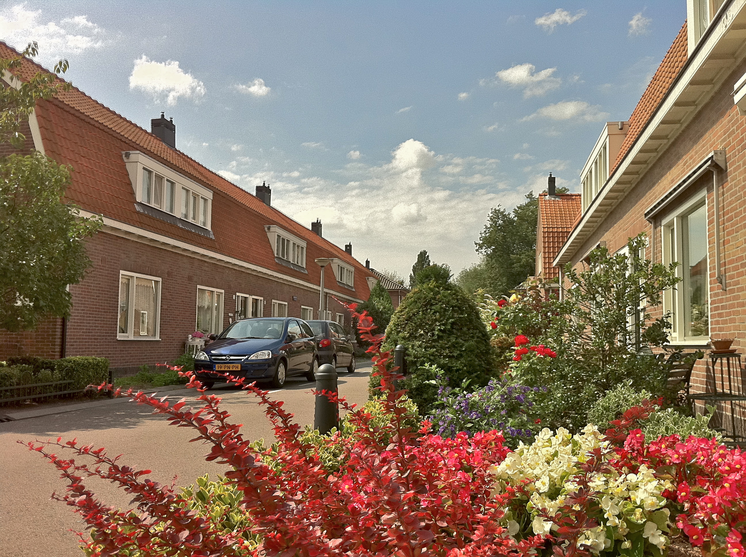 Garden City Oostzaan, North Amsterdam, July 2011